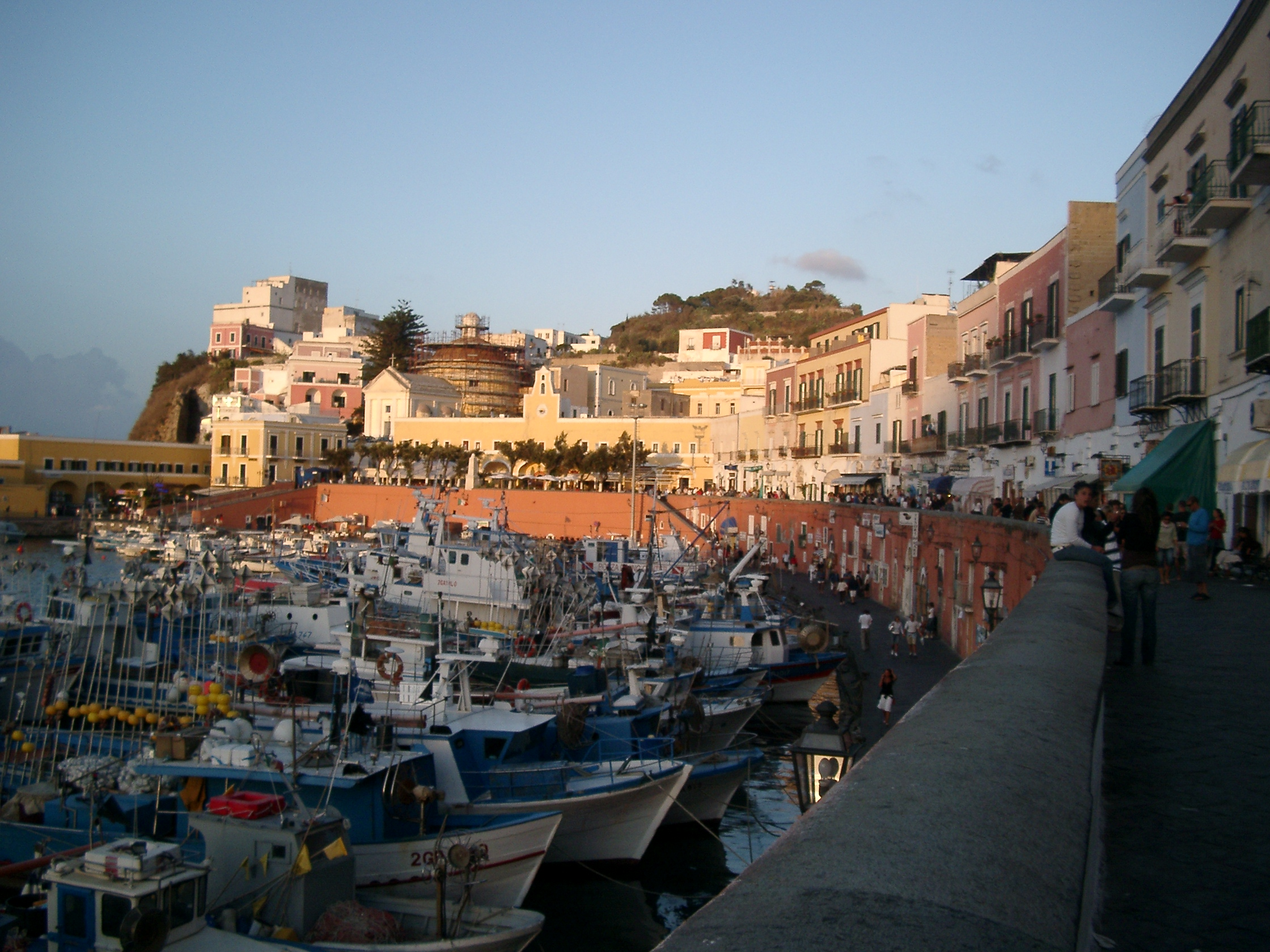 Port of Ponza.